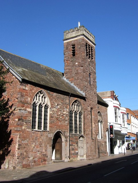 St Olave's Church, Exeter The old tower ("possibly a relic from an C11 palace chapel built for Gytha, the mother of King Harold" (Cherry & Pevsner) ) partly blocks the pavement past this intriguing little church on Fore Street. The rest of what you see here dates from 1815, but behind it, the rest is late medieval.